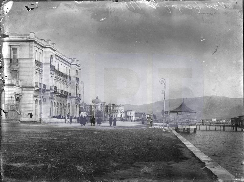 Promenade of Neo Faliro (Neon Phaleron) in 1925